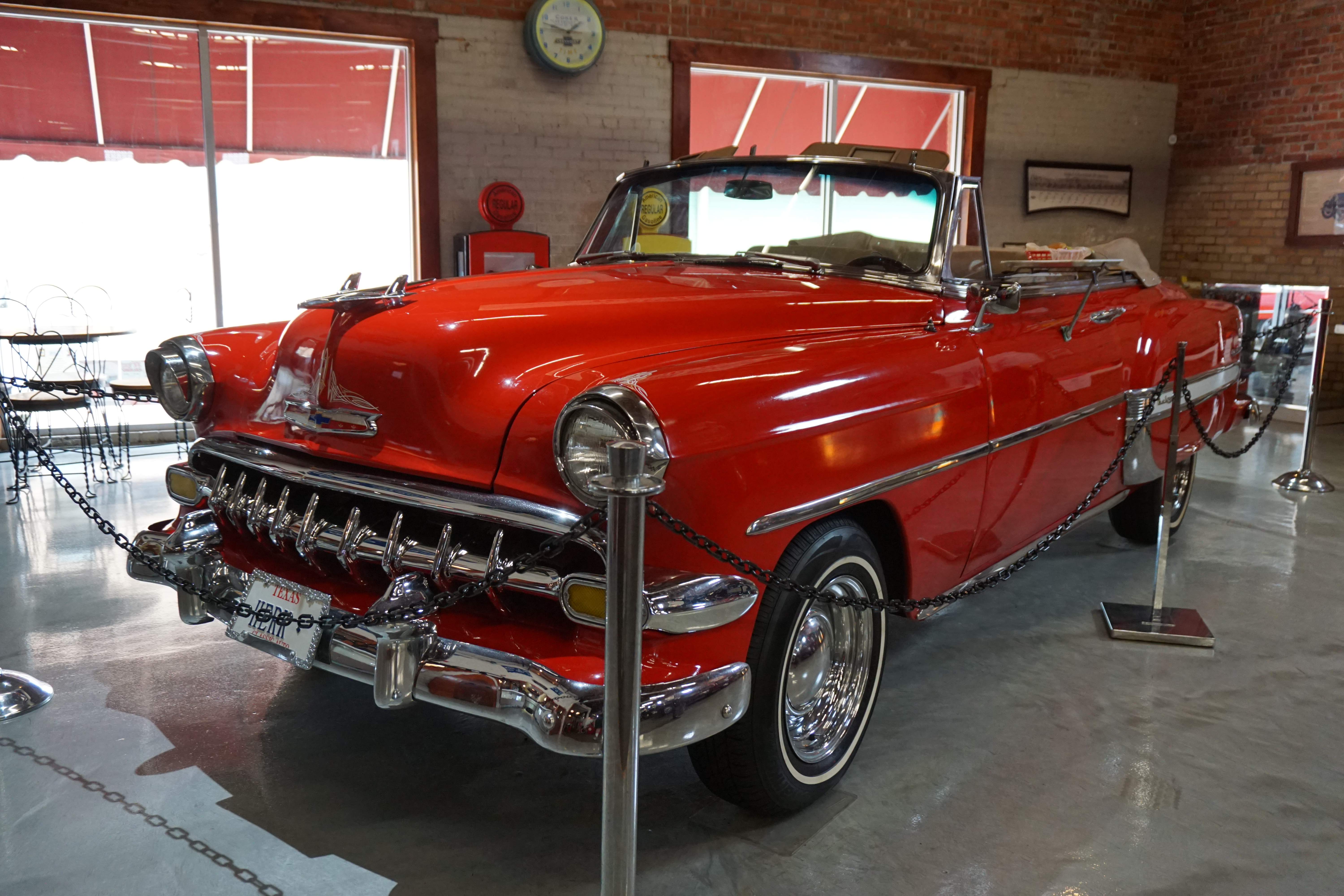 A 1954 Chevrolet Bel Air at the Four States Auto Museum in Texarkana, Arkansas (United States).